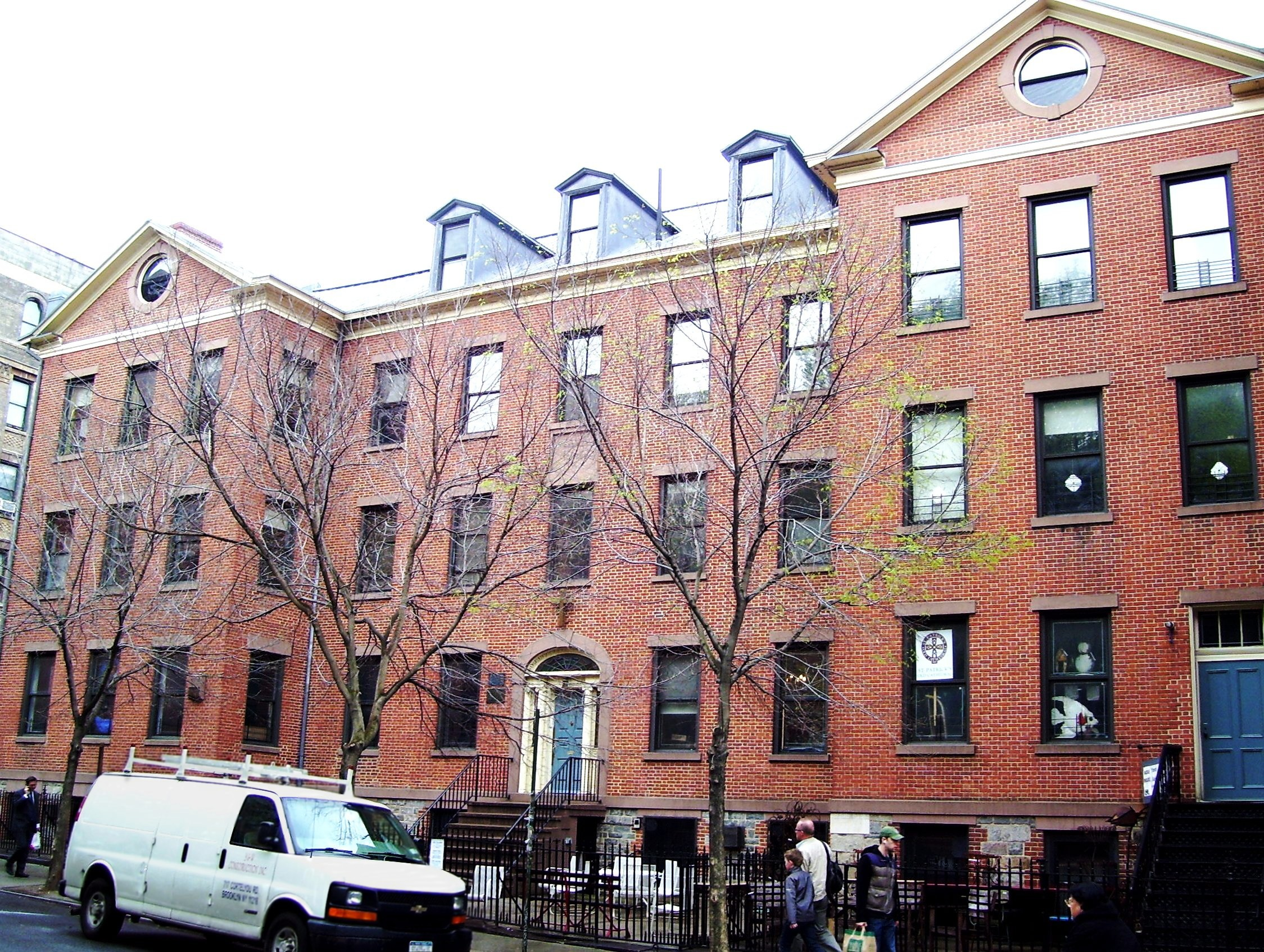 St. Patrick's Convent and Girls' School at 32 Prince Street between Mulberry and Mott Streets in the Nolita neighborhood of Manhattan, New York City was built in 1825-26 as the Roman Catholic Orphans Asylum, operated by the Sisters of Charity. In 1851, the asylum became for girls only, and in 1886 became a girls' school. The Federal-style building is a NYC landmark and, as part of the St. Patrick's Old Cathedral Complex, was added to the National Register of Historic Places. (Source: Guide to NYC Landmarks (4th ed.))